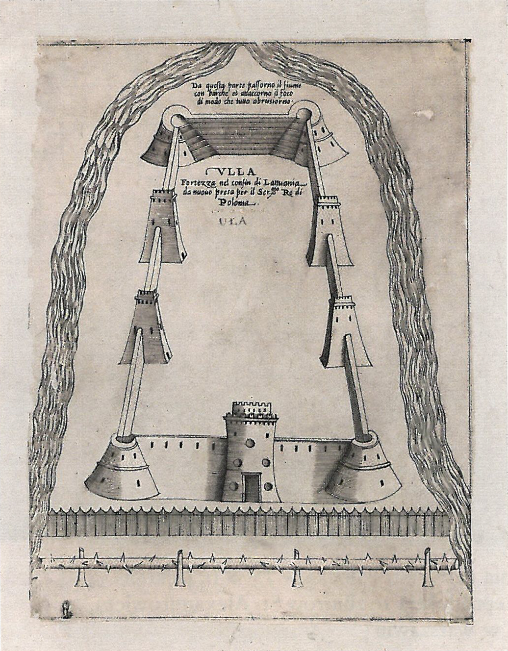 Castle in Uła.